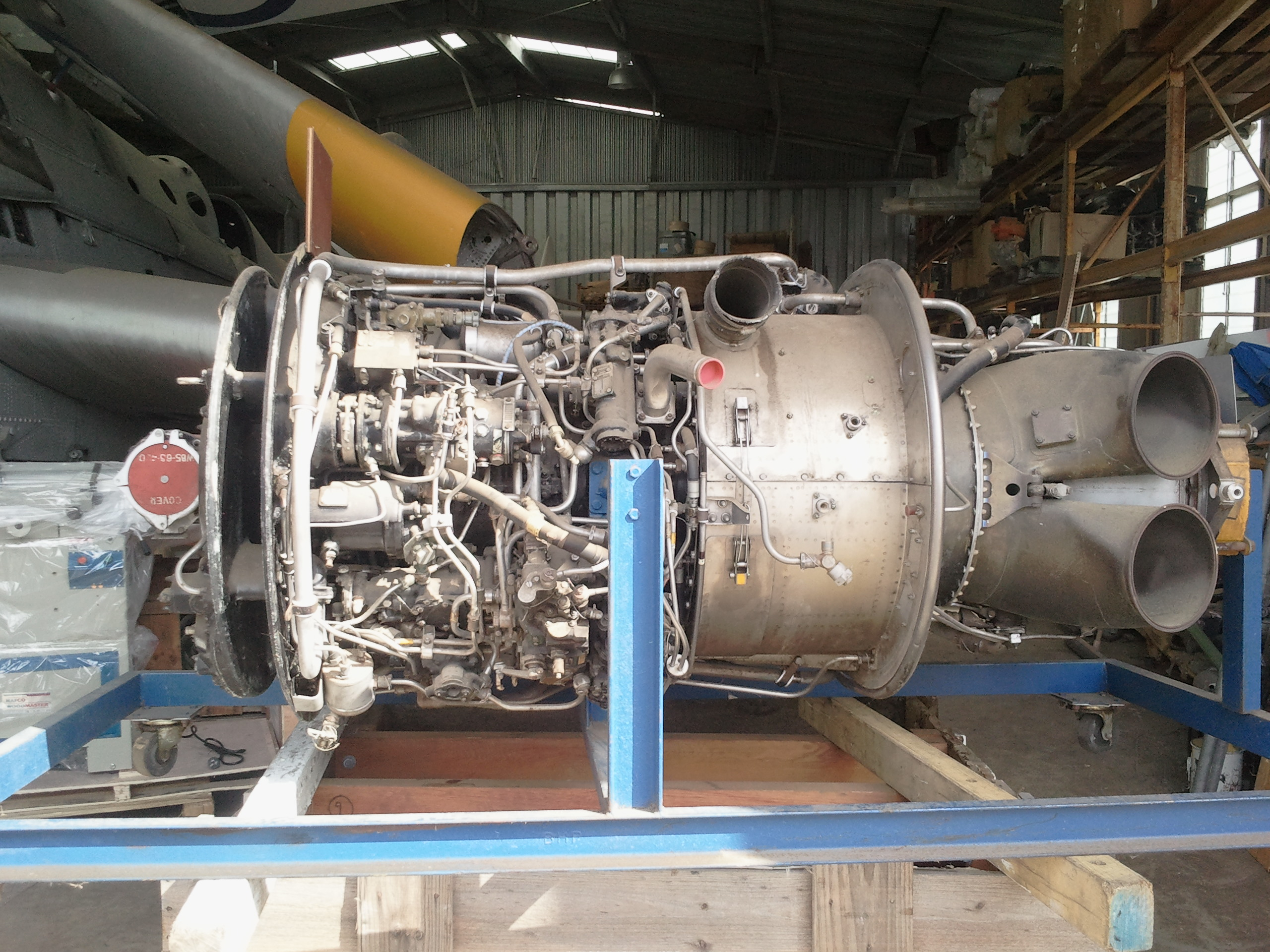 Napier Gazelle engine, Fleet Air Arm Museum, Australia